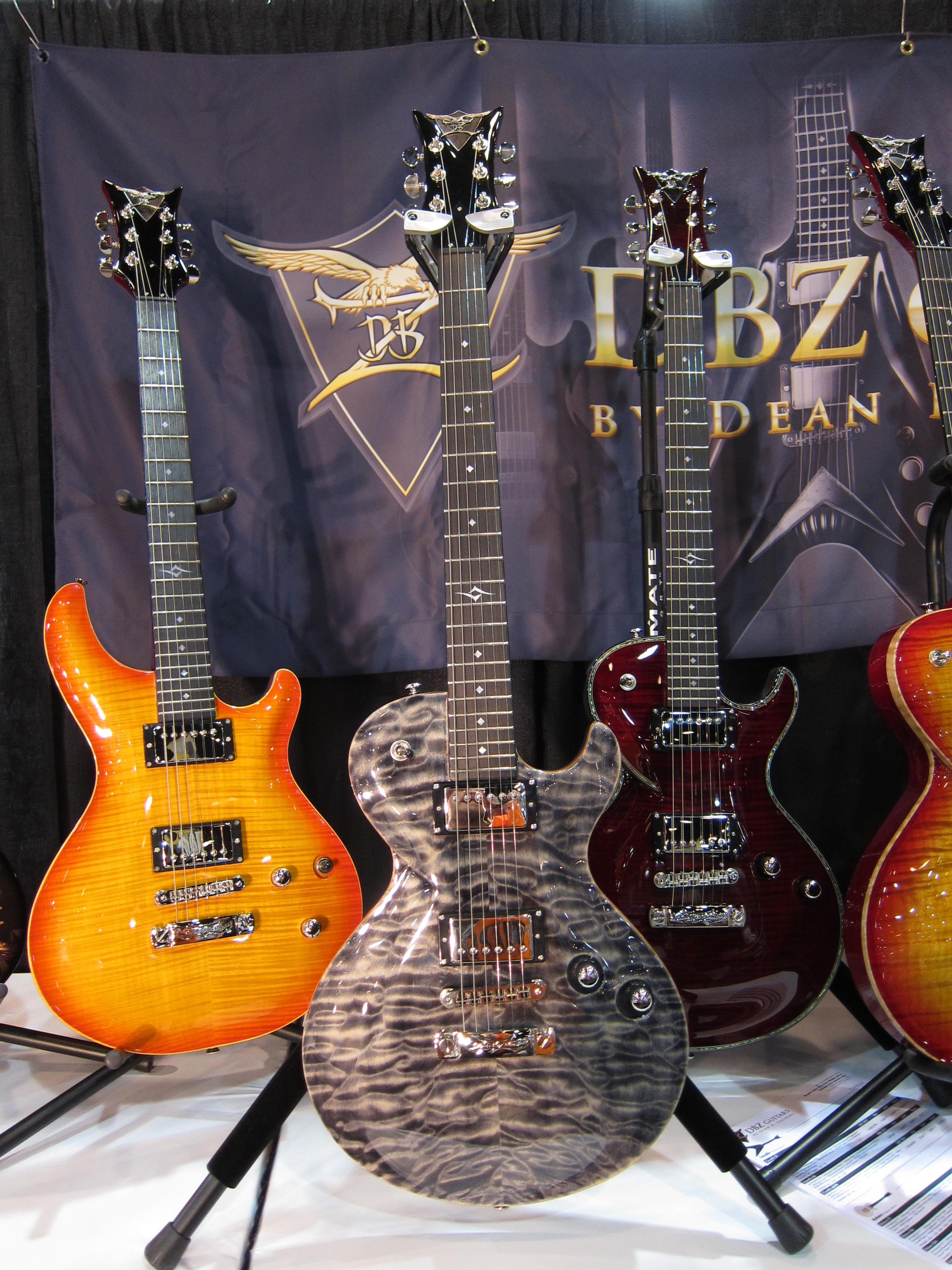 Pics of stuff from the Summer NAMM show 2010 in Nashville Tennessee. I will add more info on what's in the pics as time allows.